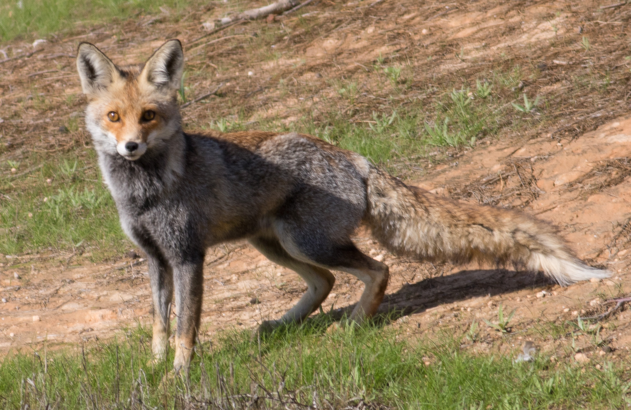 Red fox, (Subspecie: Palestinian fox V. v. palaestina) Eshel HaNasi, near Beersheba, Israel